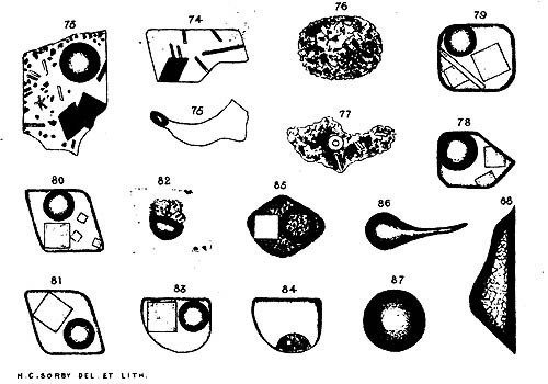 Fluid Inclusions - Sketch by Sorby ca. 1858. The inclusions exhibit several phases, including liquids, gases and solids.